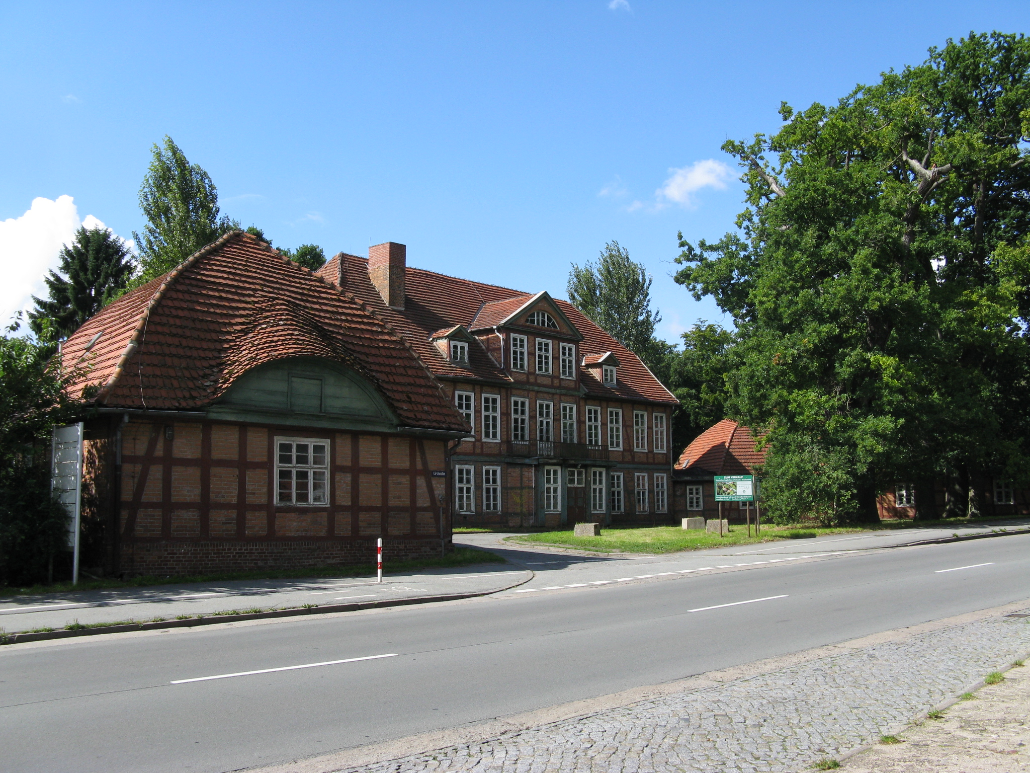 Hunting lodge Jagdschloss Friedrichsthal in Schwerin, Mecklenburg-Vorpommern, Germany